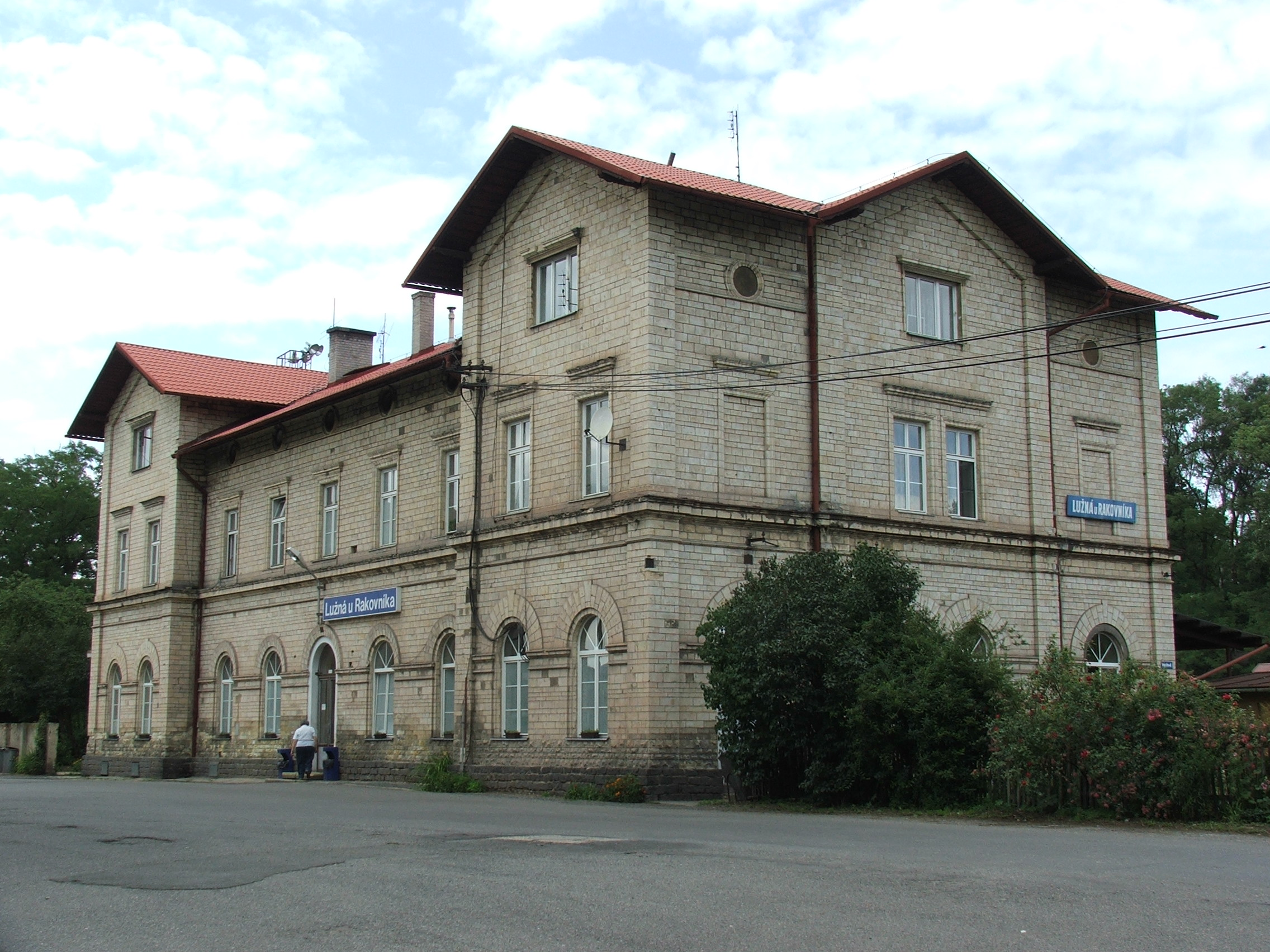 Train station in Lužná u Rakovníka, (Rakovník district) Czechia